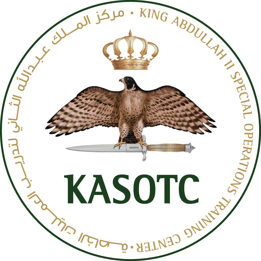 KASOTC Official Logo